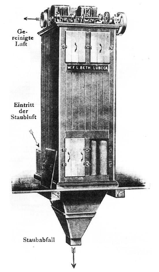 Image showing a „Beth“-Filter „KS“